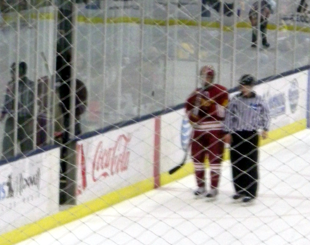 A Ferris State player is escorted to the penalty box after taking a penalty during the Ferris State Bulldogs vs. Michigan Wolverines men's ice hockey game at Yost Ice Arena in Ann Arbor, Michigan (United States). Michigan won 2–0.